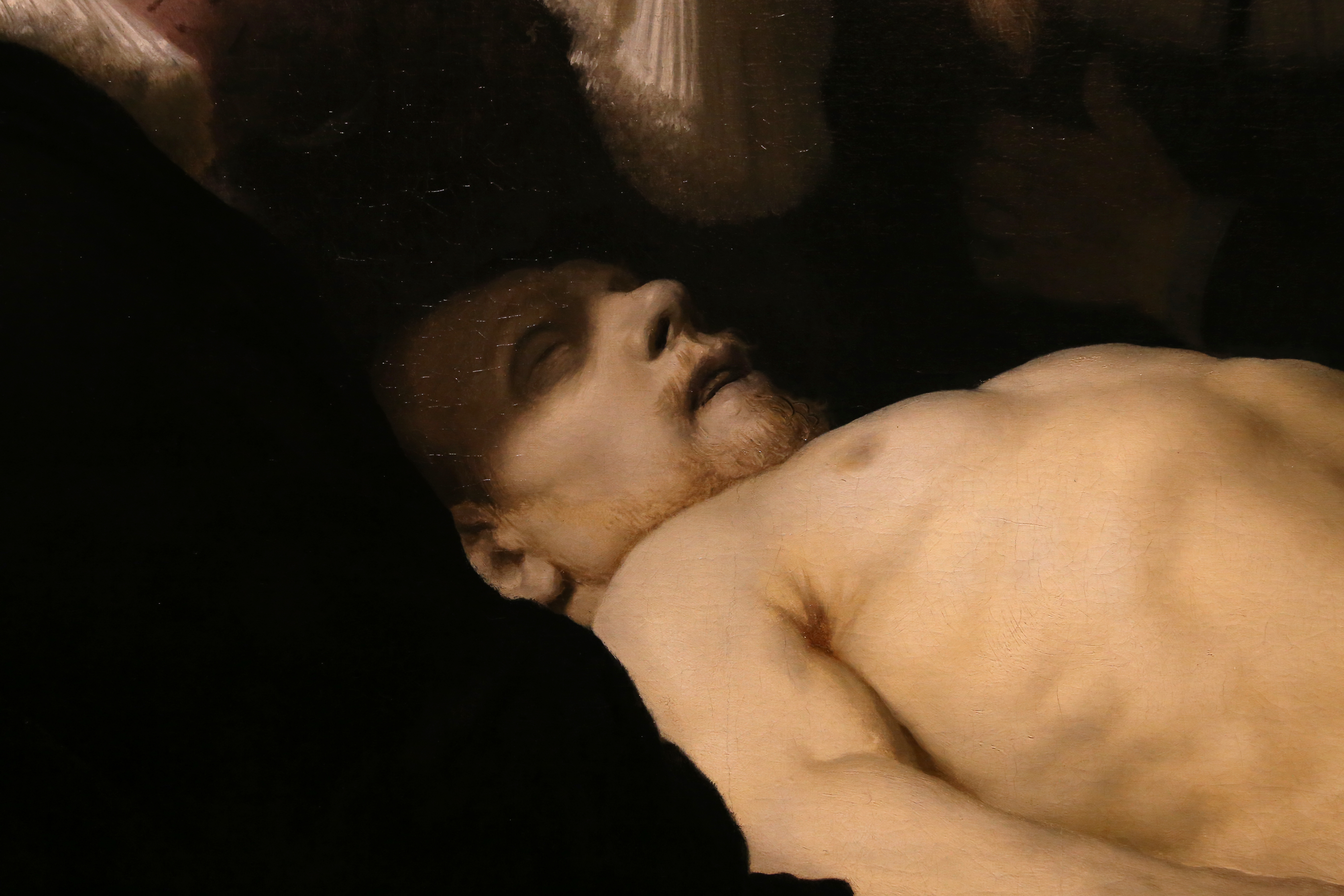 Paintings by Rembrandt in the Mauritshuis